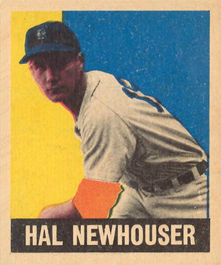 Major League Baseball pitcher Hal Newhouser in 1948.